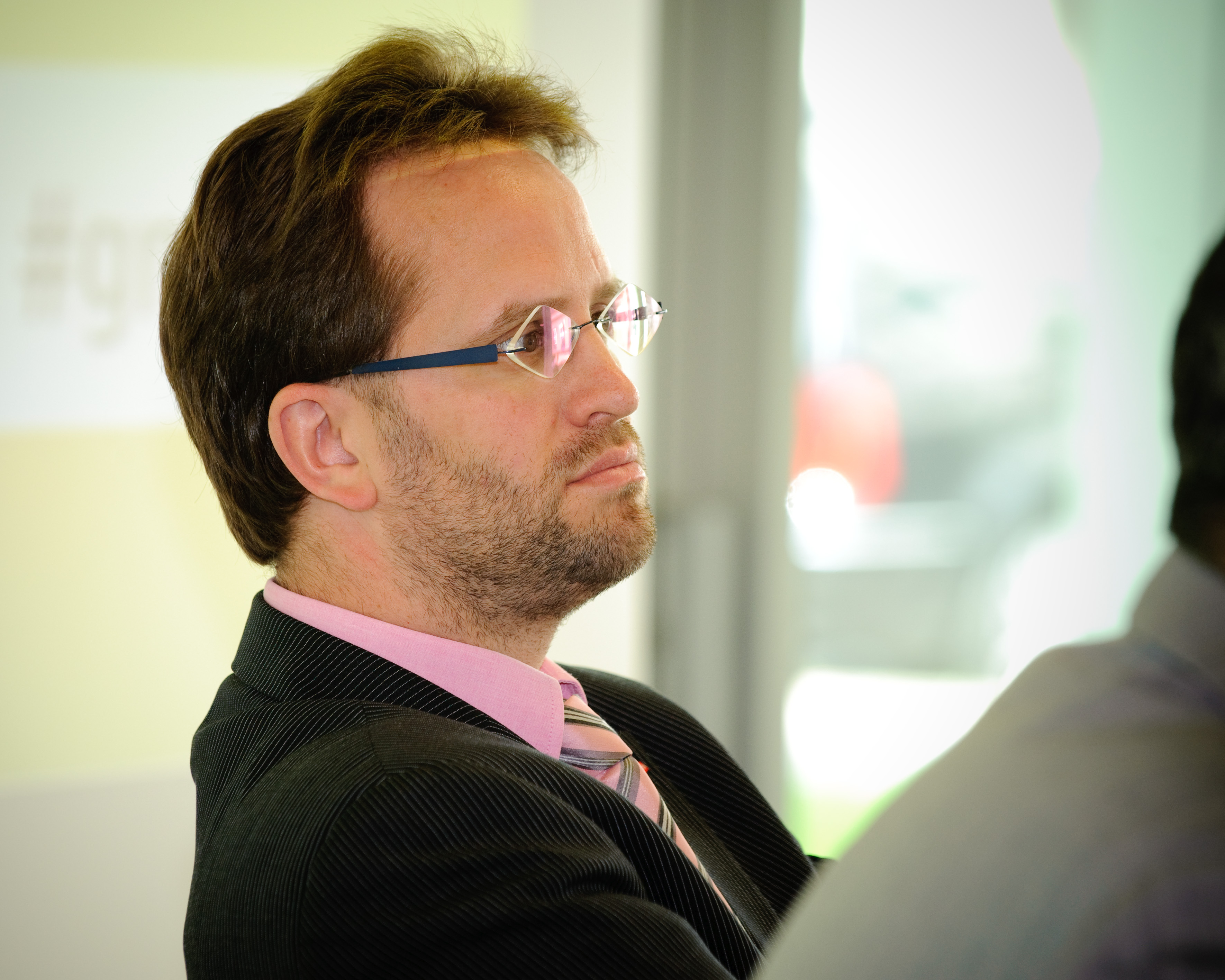 Foto: Stephan Röhl